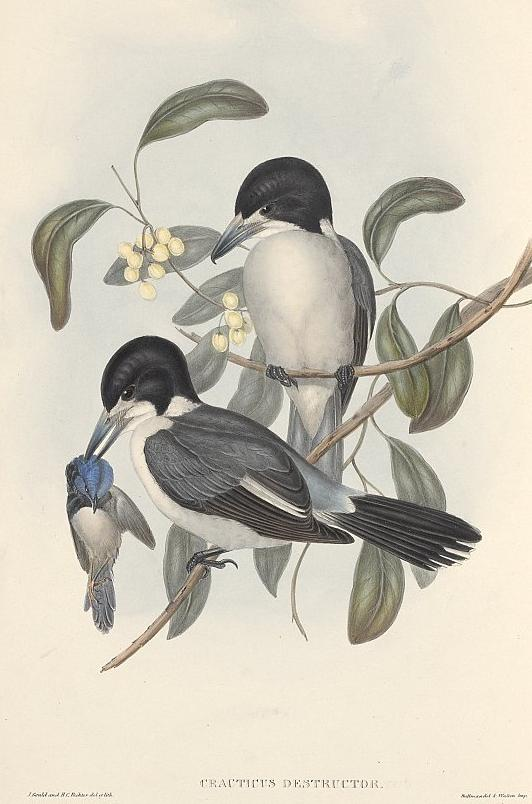 Grey Butcherburd (Cracticus torquatus), John Gould, 'The Birds of Australia', 1848